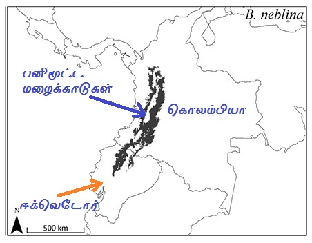 Distribution of Bassaricyon neblina "Olinguito", Ecuador, Colombia